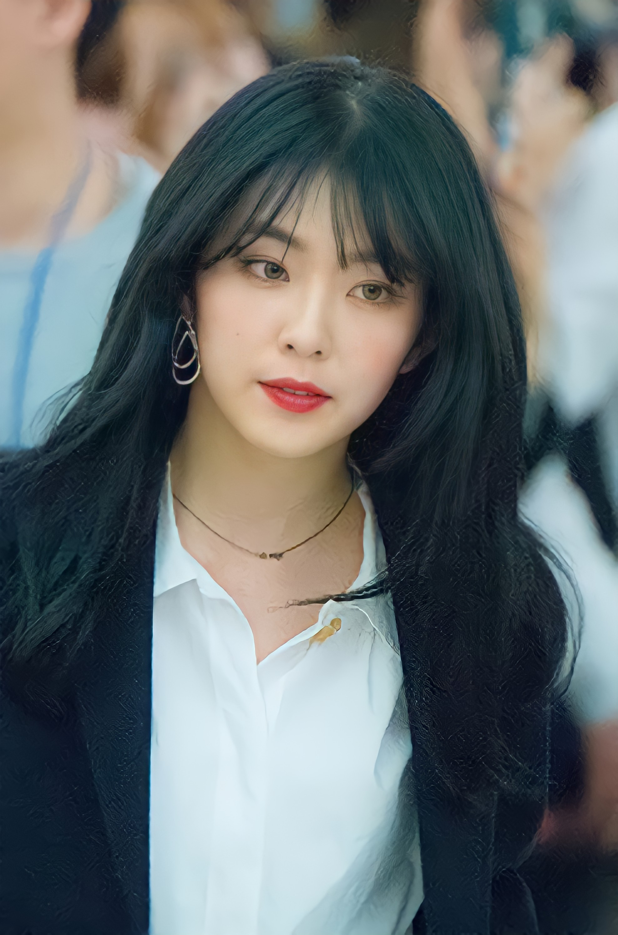 Irene Bae at a fansigning event on February 2, 2018.